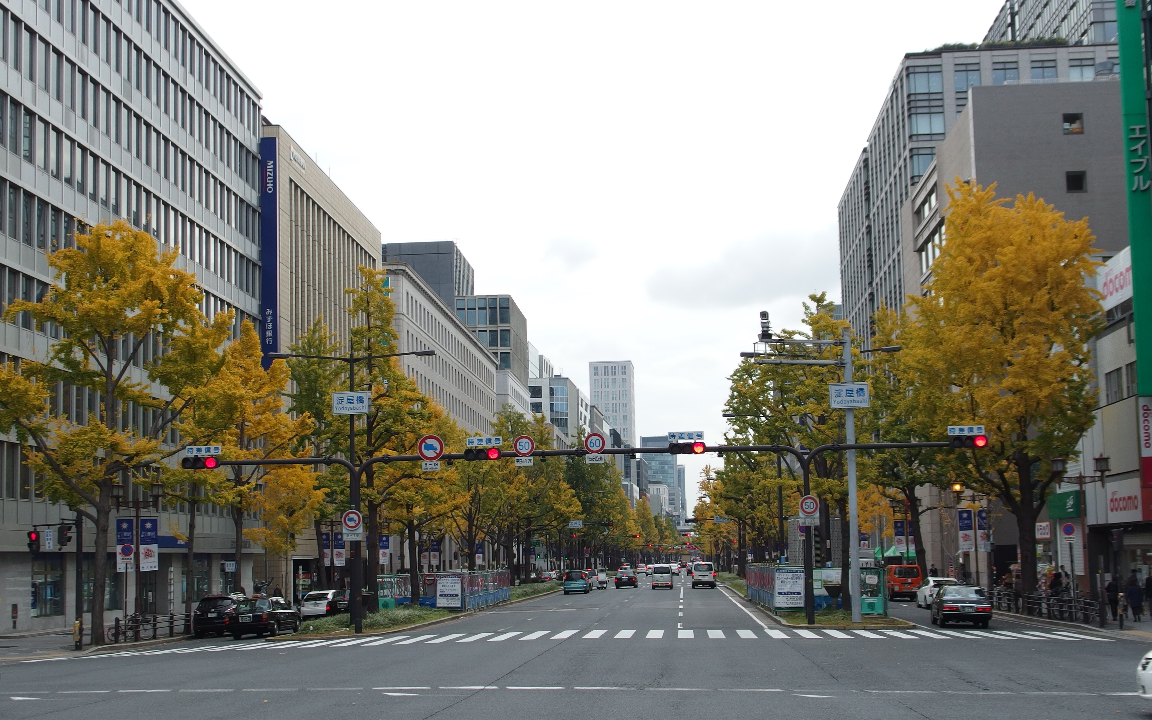 Midōsuji, Osaka, Osaka Prefecture, Japan